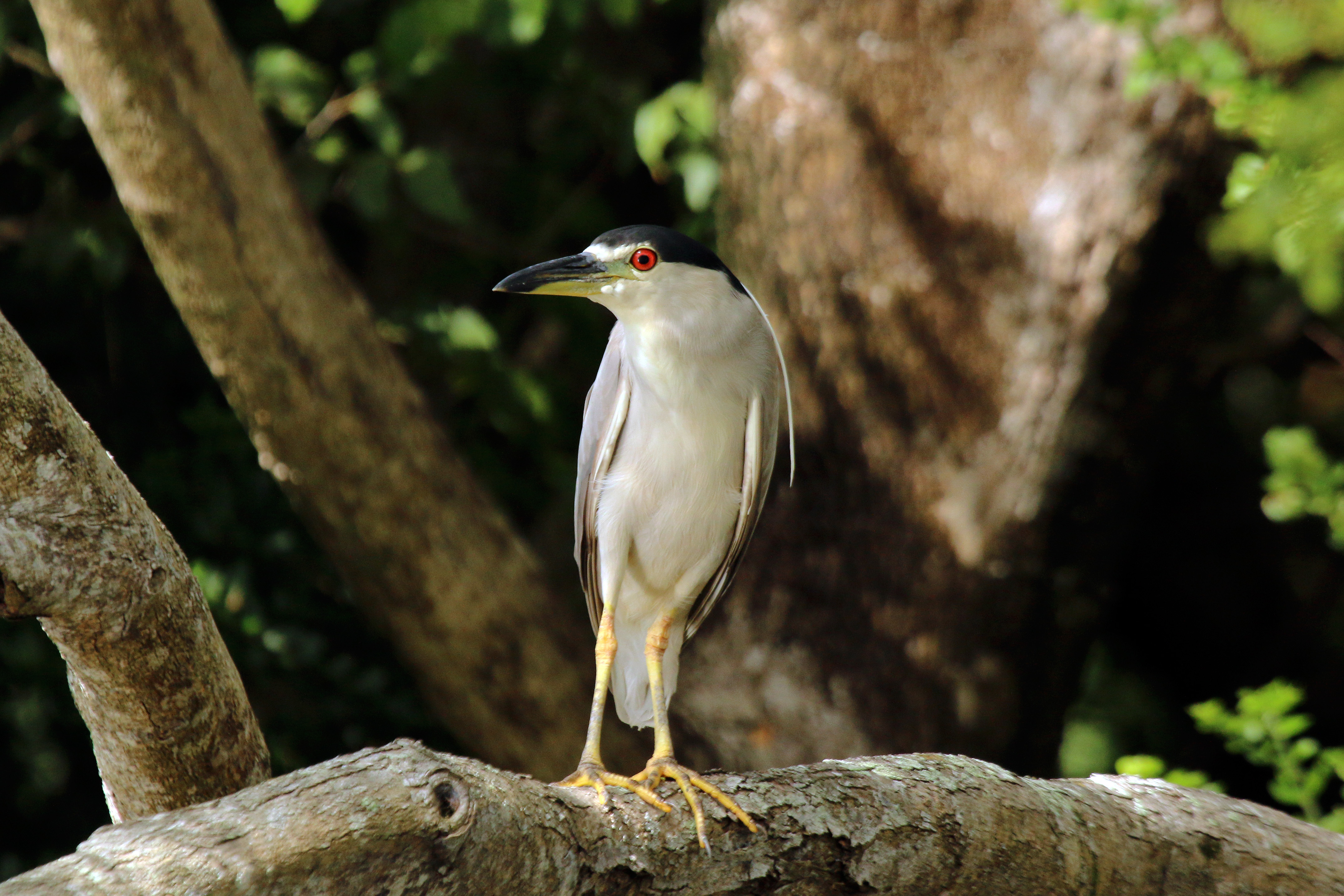 Black-crowned night heron (Nycticorax nycticorax hoactli), Tobago